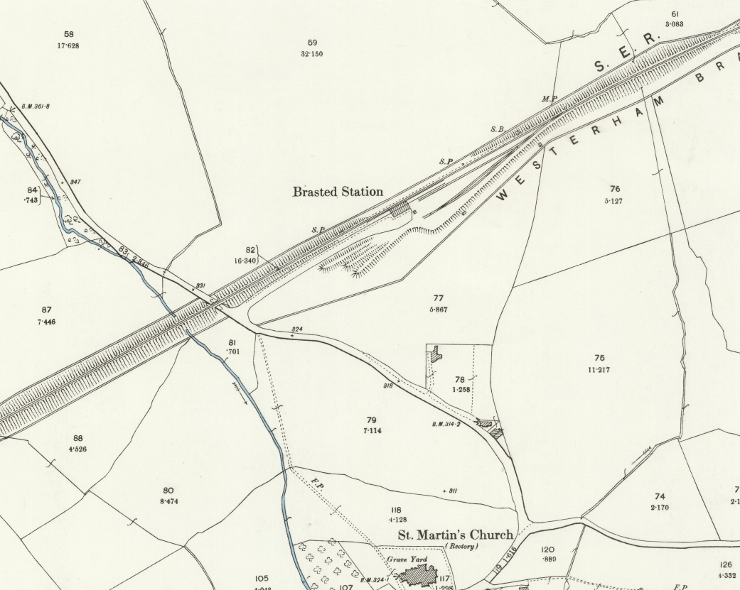 Brasted railway station on the Westerham Valley branch line, 1895. The station was opened in 1883 and closed in 1886. It reopened in 1903 and closed again in 1909.